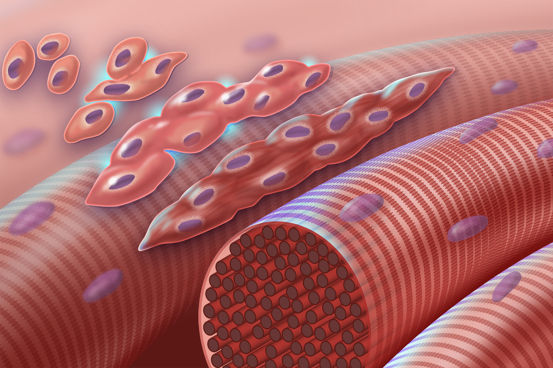 This graphic depicts normal myoblast (early muscle cells with a single nucleus) fusing together to form myocytes (multinucleated muscle cells) during myogenesis. Credit: Darryl Leja, National Human Genome Research Institute, NIH